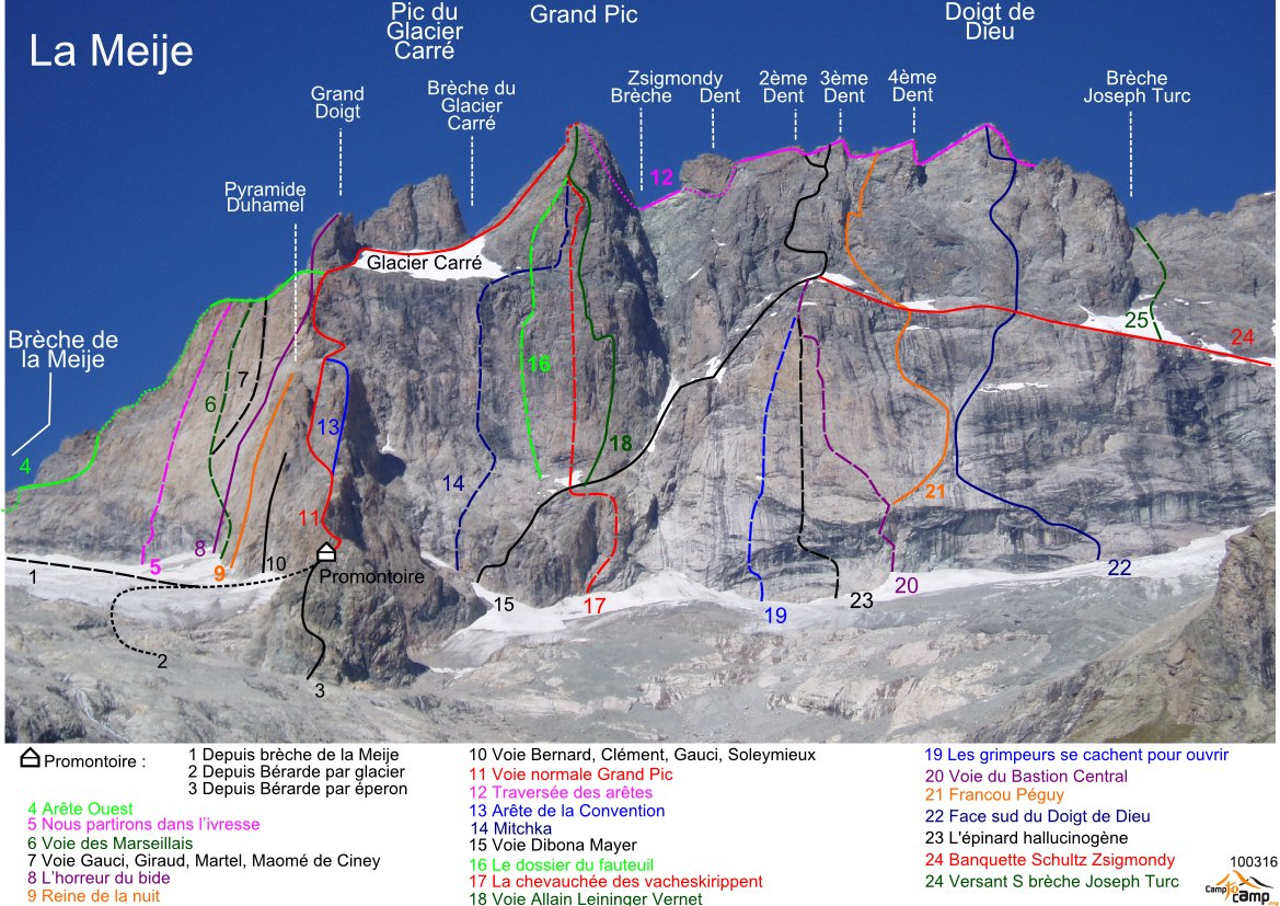 Meije - South face - Routes